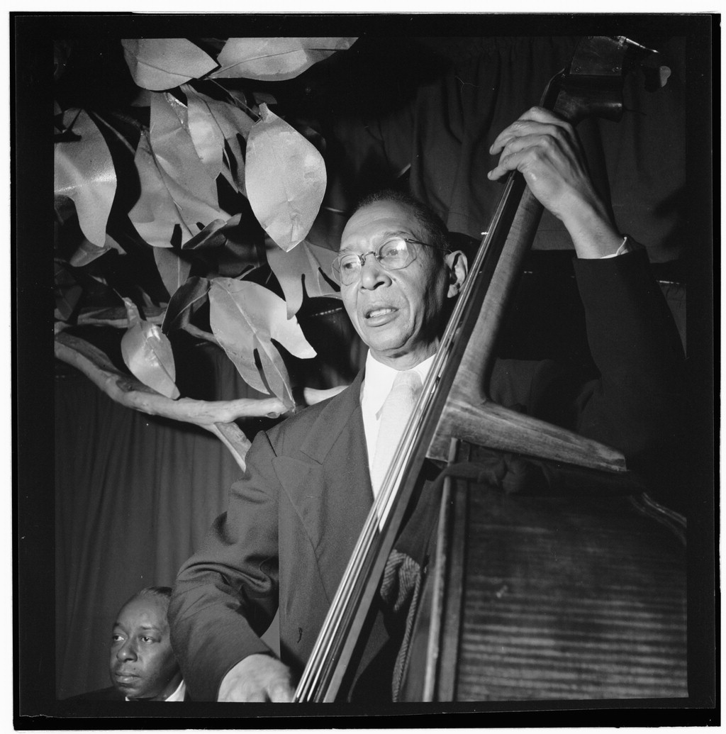 Portrait of Pops Foster, Ole South, New York, N.Y.